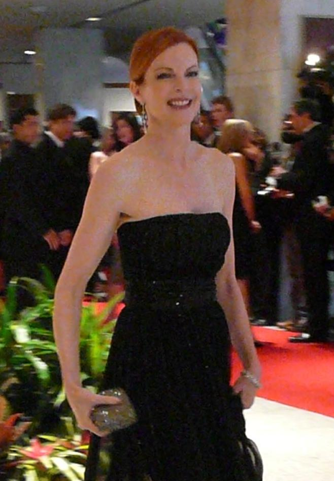 Actress Marcia Cross, famous for playing Bree on Desperate Housewives